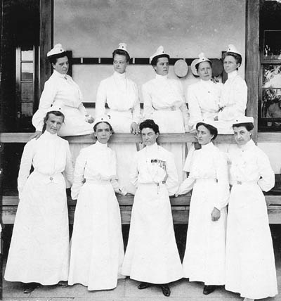 Dr. McGee and the American Nurses at the Military Reserve Hospital, Hirsohima, Japan, 1904